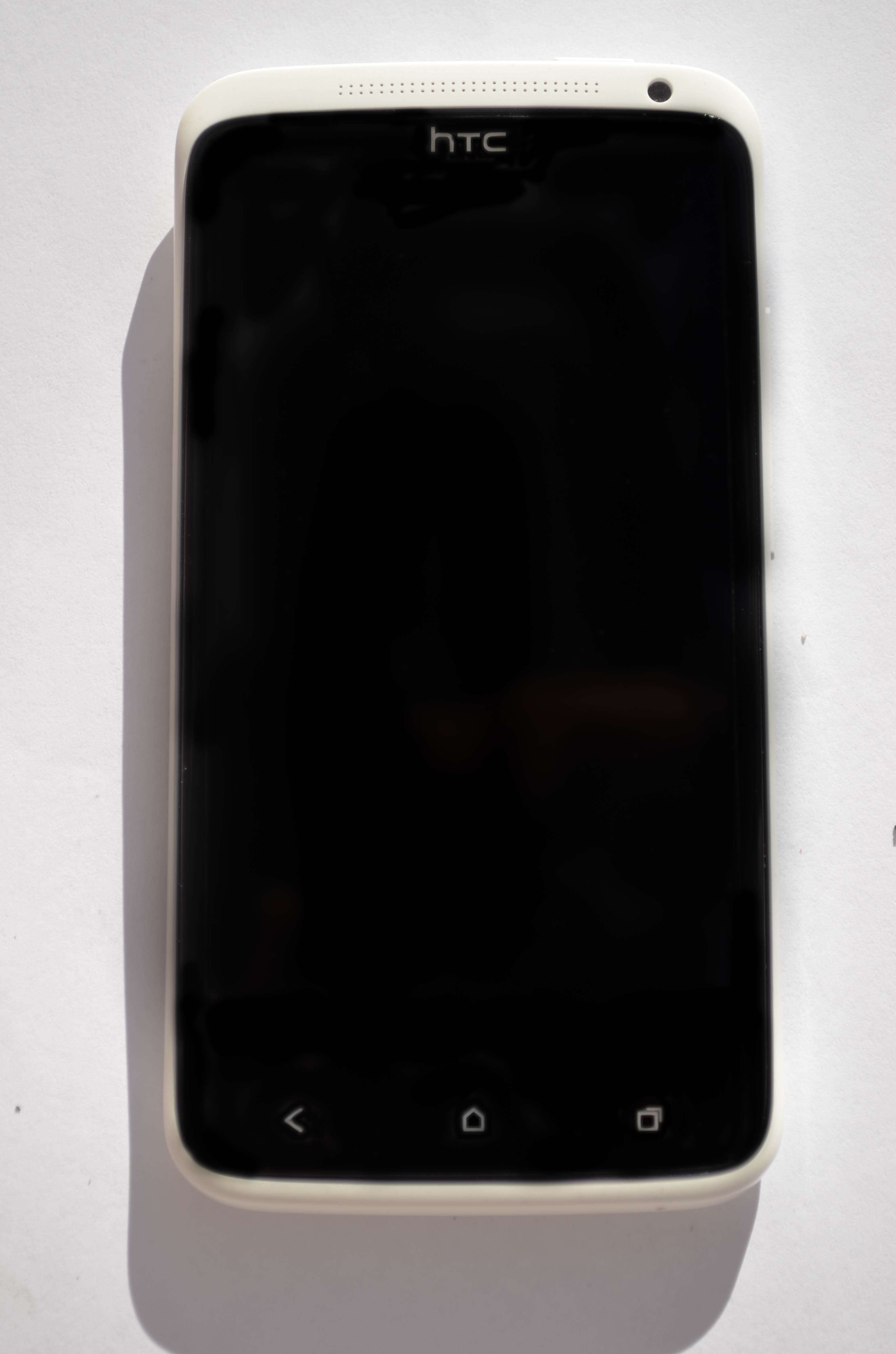 Image of the front of a HTC One X (0 exposure was applied on the screen of the phone to remove reflections in it)